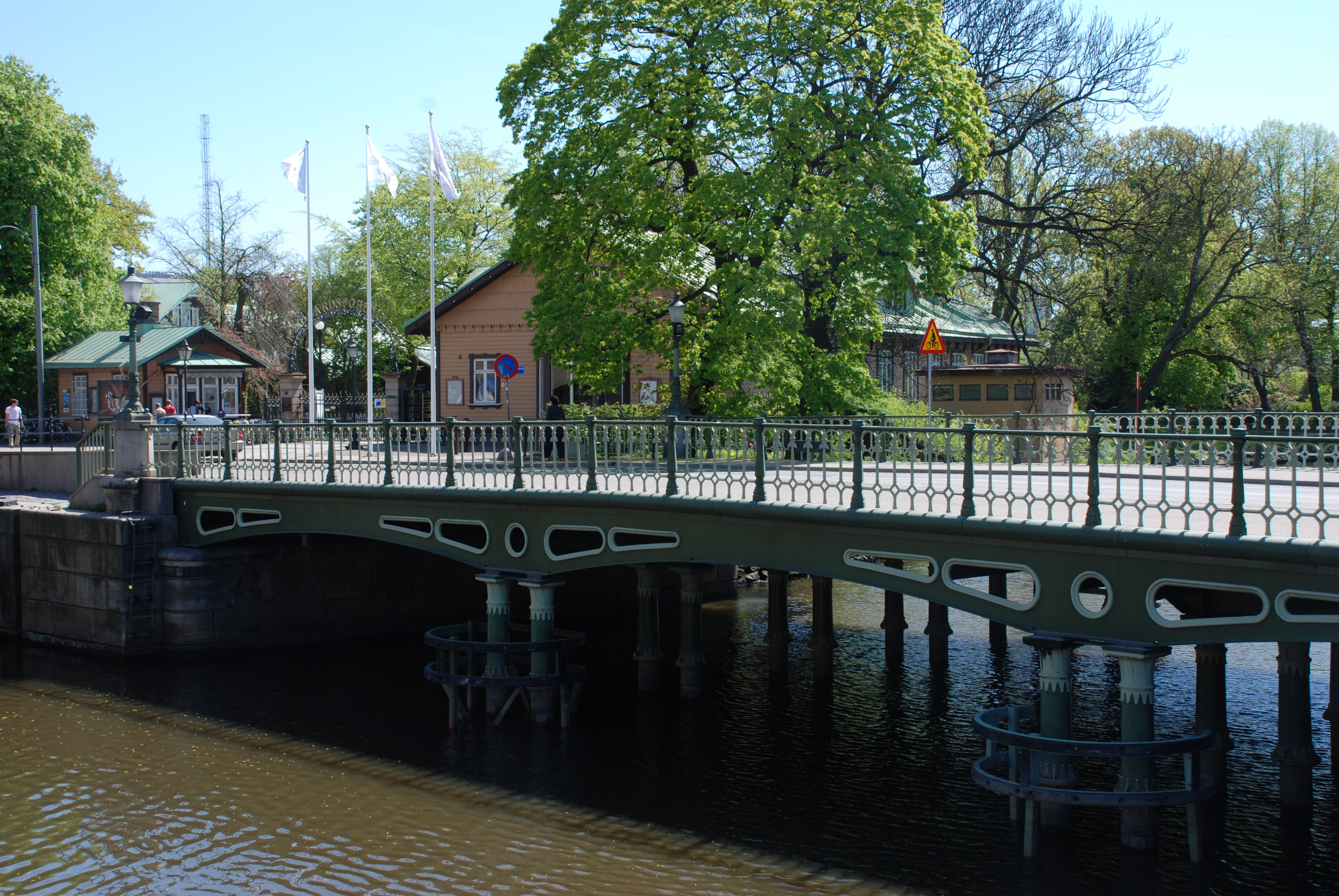 The bridge Slussbron at Drottningtorget in Göteborg.